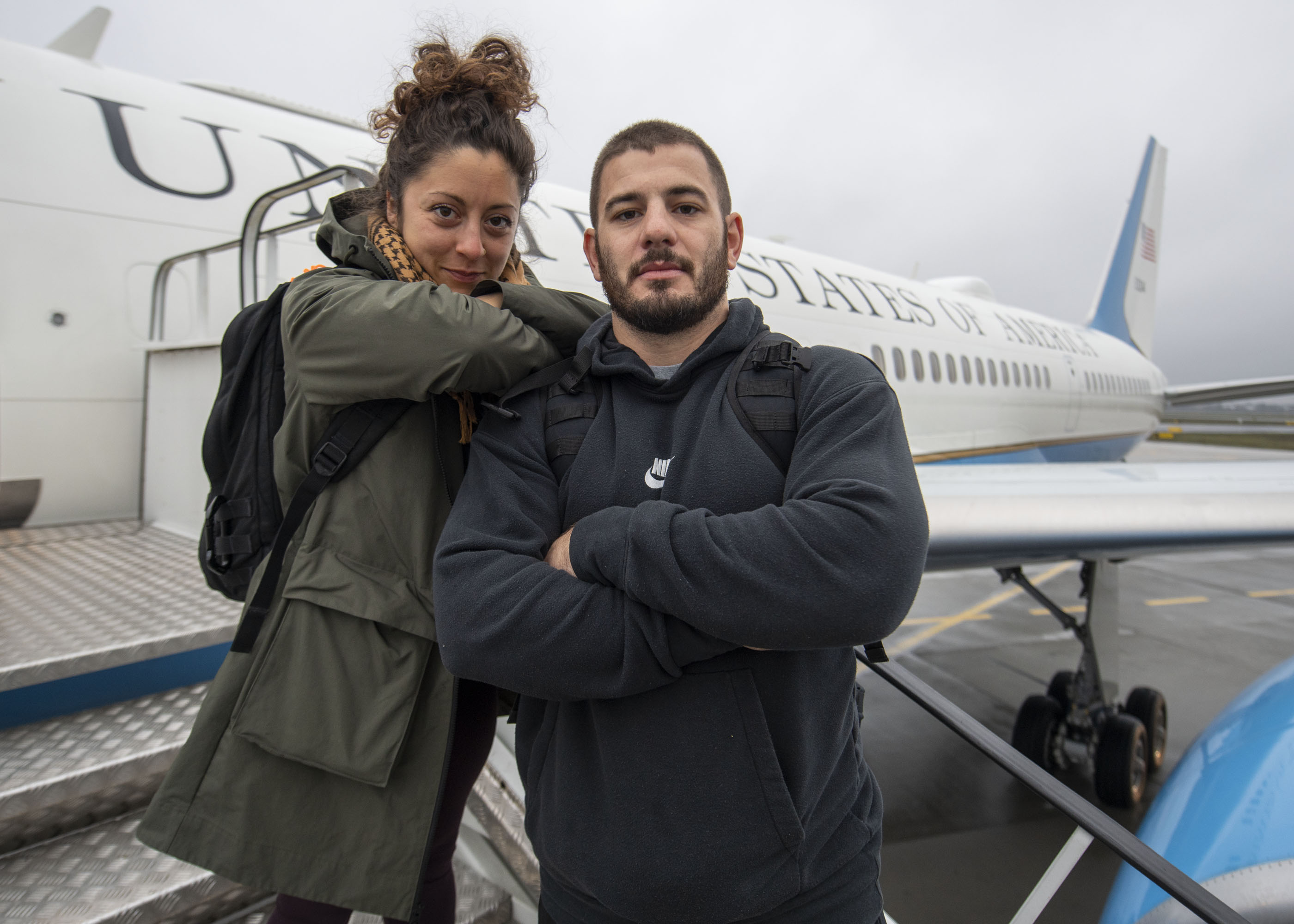 Marine Corps Gen. Joe Dunford, chairman of the Joint Chiefs of Staff, meets with deployed soldiers in Poznan, Poland, Dec. 26, 2018. Dunford, along with USO entertainers, visited service members who are away from home during the holidays. This year’s entertainers include actors Milo Ventimiglia, Wilmer Valderrama, DJ J Dayz, Fittest Man on Earth Matt Fraser, 3-time Olympic Gold Medalist Shaun White, Country Music Singer Kellie Pickler, and comedian Jessiemae Peluso. (DoD photo by Navy Petty Officer 1st Class Dominique A. Pineiro)